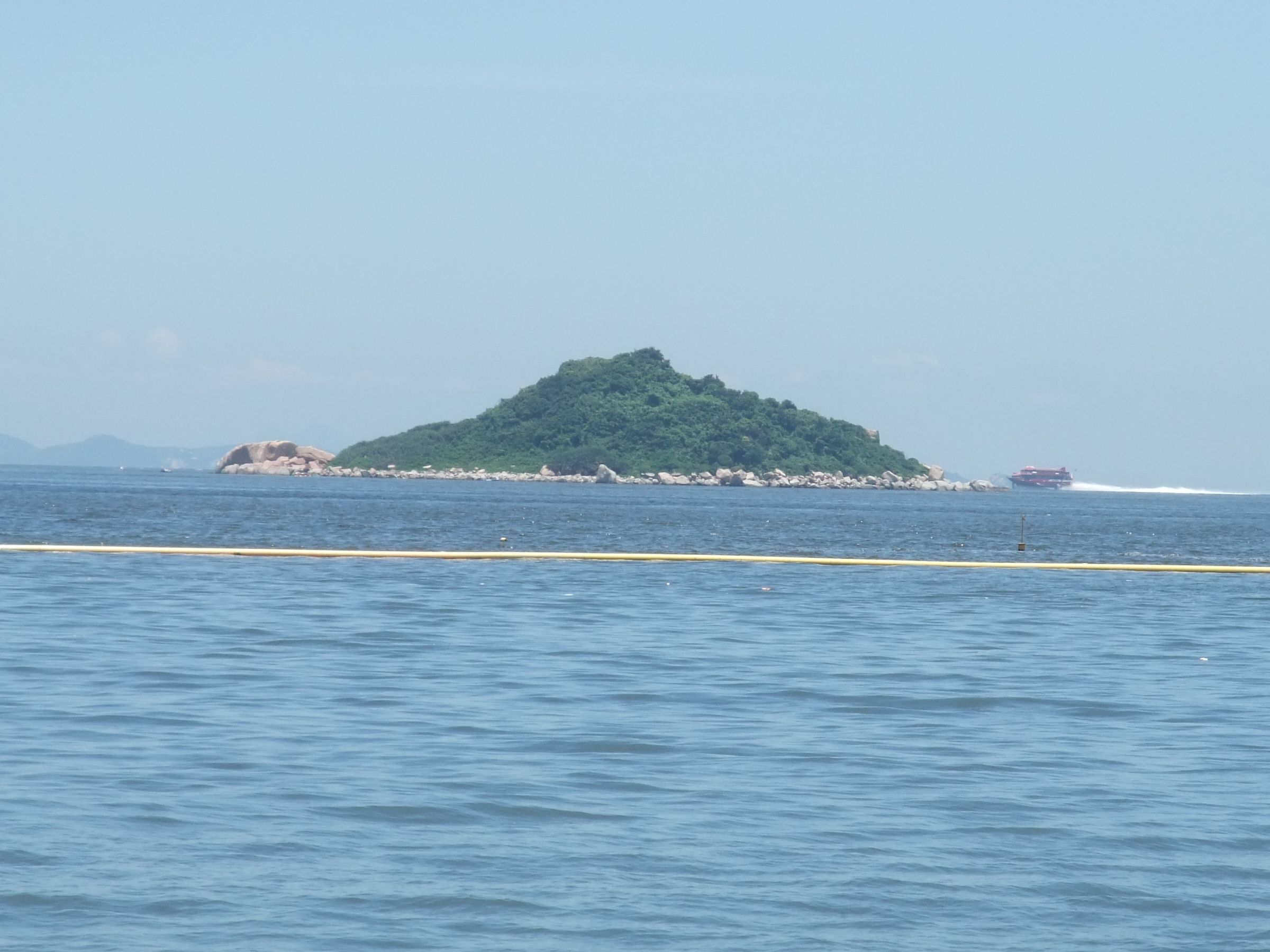 Photo of Cha Kwo Chau